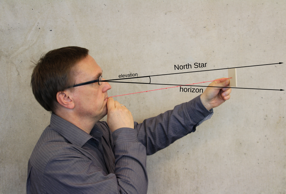 Usage of the Kamal as seen from the side.